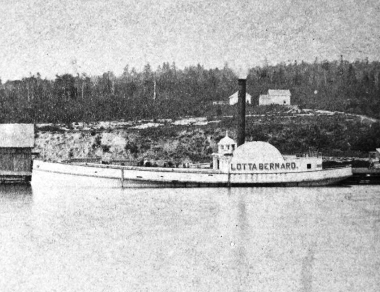 The steamer Lotta Bernard before she sank